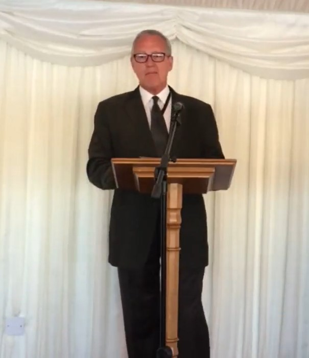 The Right Honourable Andrew Zelig Stone, Baron Stone of Blackheath, speaks at the launch of Global Sharing Week.